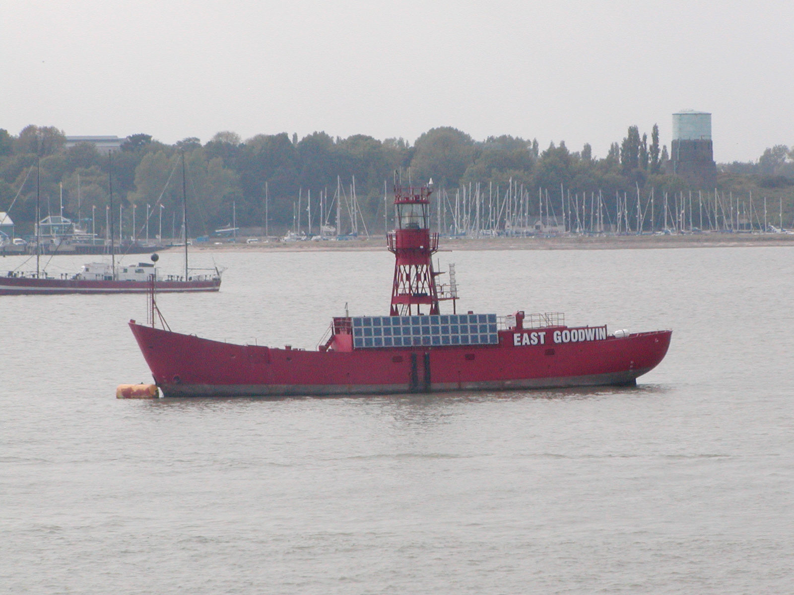 Lightvessel "East Goodwin" in Harwich harbour